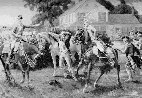 Illustration of Nathanial Woodhull being captured.